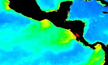 SeaWiFS winter (2000-2001) Level 3 chlorophyll image, showing the increased productivity corresponding to the Tehuano (south of Mexico), Papagayo (west of Nicaragua), and Panama (south of Panama) wind jets.